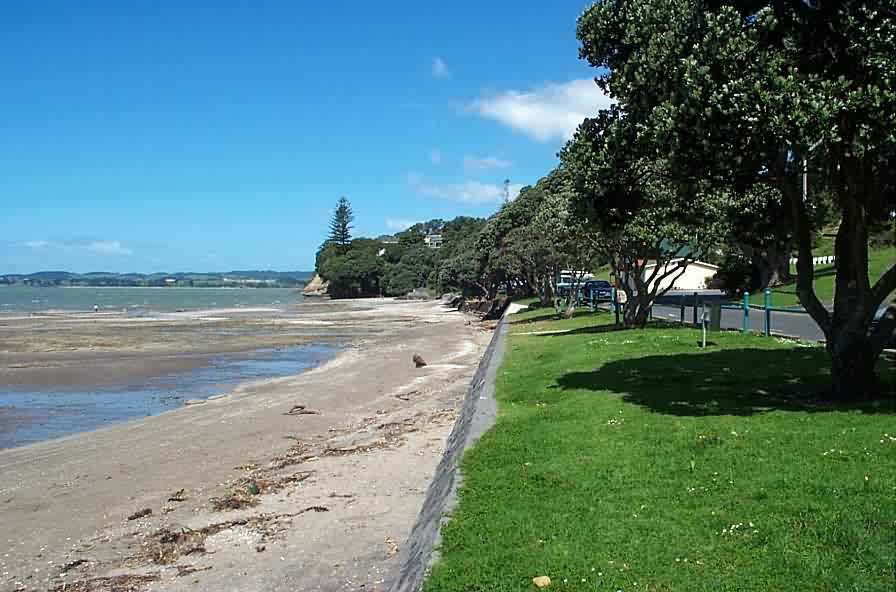 Howick Beach looking east.